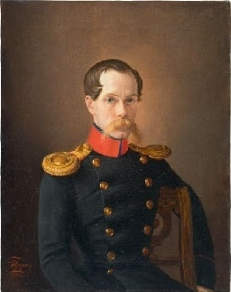 Alopæus Fedor Davidodich